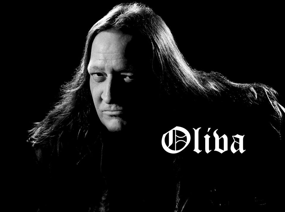 Jon Oliva - New single, official photo in public domain.